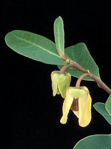 Asimina tetramera image rotated, watermark removed